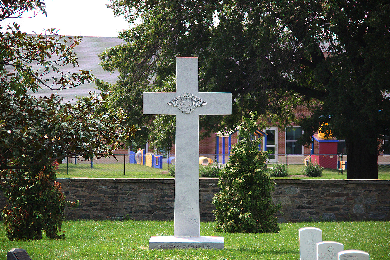 Looking west at the Argonne Cross at Arlington National Cemtery in Arlington, Virginia, in the United States. A portion of Ft. Myer, a U.S. Army base which abuts the cemetery in the west, can be seen through the trees. Maas-Argonne Offensive, also called the Battle of the Argonne Forest, was a part of the final Allied offensive of World War I that stretched along the entire western front. It lasted from September 26 to November 11, 1918. Of the 187,000 Allied casualties, 117,000 were American. (The Germans lost 90,000 to 120,000.) After the war, many American dead were repatriated from cemeteries in Europe. About 2,100 remains were reinterred in Section 18 at Arlington National Cemetery. In 1921, the Argonne Unit of the American Women's Legion succesfully won permission from the U.S. Department of War to erect a plain white cross in Section 18 in honor of those Americans who died during the Battle of the Argonne Forest. The white marble memorial, which is 13 feet high and adored with an eagle and wreath on its intersection, was dedicated on November 13, 1923. A grove of 19 pine trees once formed a semi-circle to the sides and rear of the cross, as a symbol of the forest in which the soldiers fought and died. Many of these trees have since died, fallen over in storms, or been replaced. A more loose grove of pines now adorns Section 18.